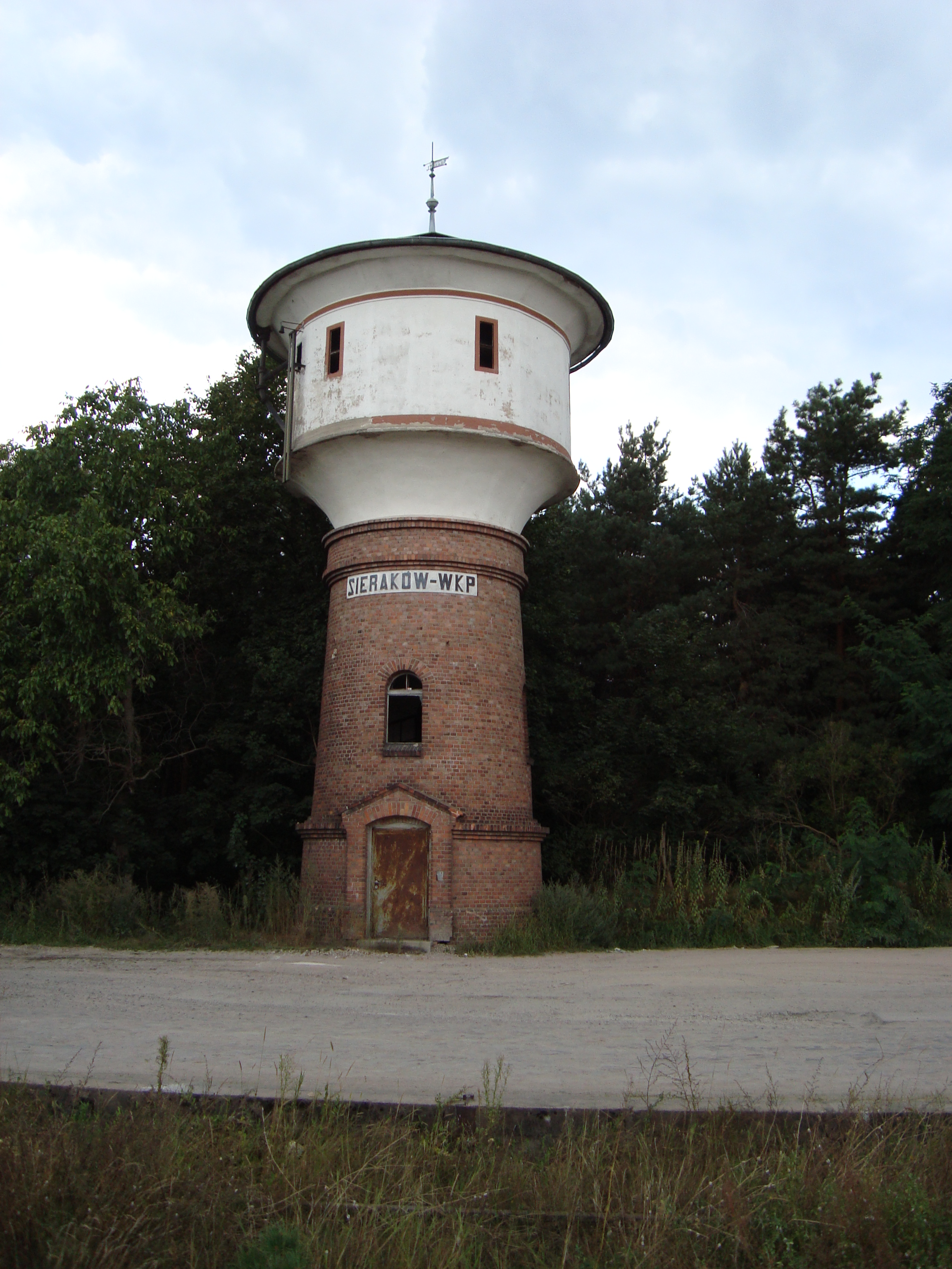 Closed train station – water tower